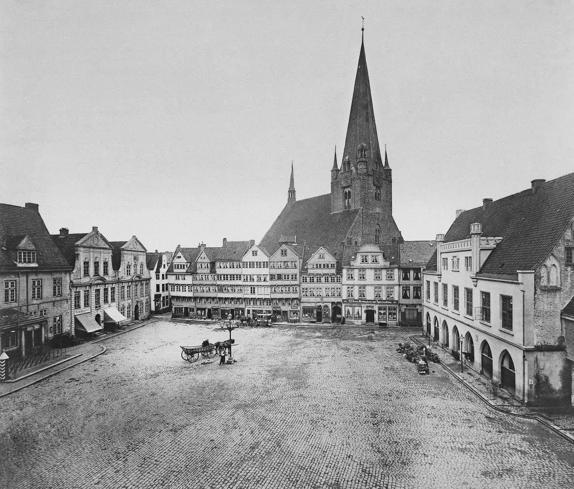 Market Square (later Alter Markt) with a view to the Nikolaikirche around 1868. On the left the dance hall, on the right the town hall, which can be traced back to 1266 and later transformed in its exterior form in 1596 and 1845, in front of the church the Persian houses